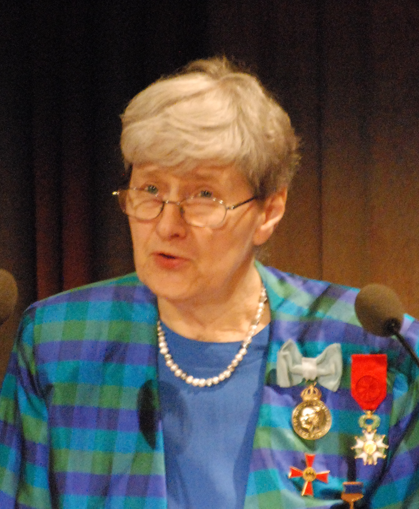 Ceremonial Meeting of the Royal Swedish Academy of Sciences: Kerstin Fredga